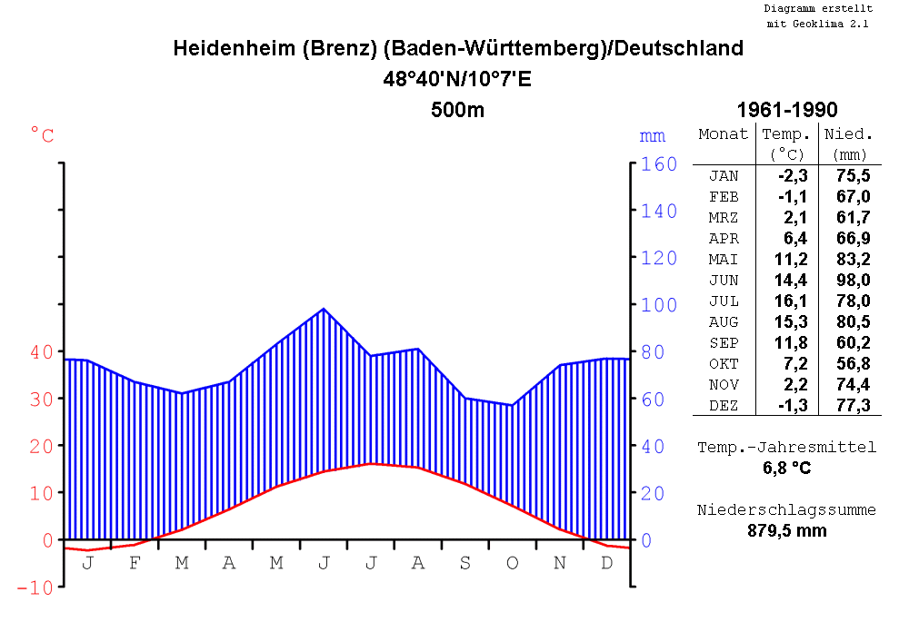 climate chart of Heidenheim, Baden-Württemberg, Germany, for the period of time from 1961 to 1990, in the format by Walter and Lieth, metric, °Celsius and millimeters, chart made with Geoklima 2.1, label in German